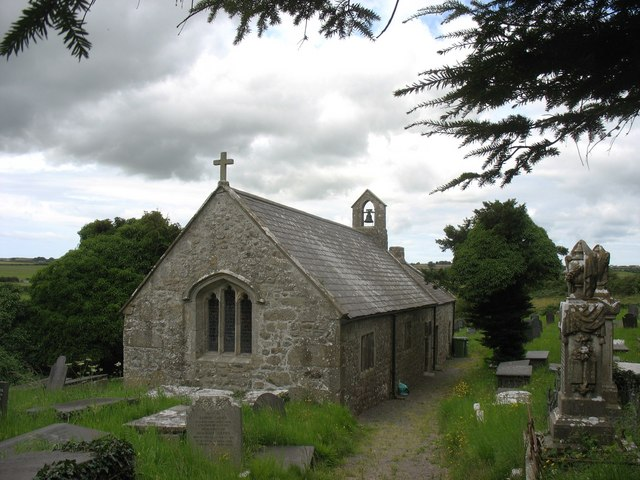 Eglwys Cwyllog Sant from the east